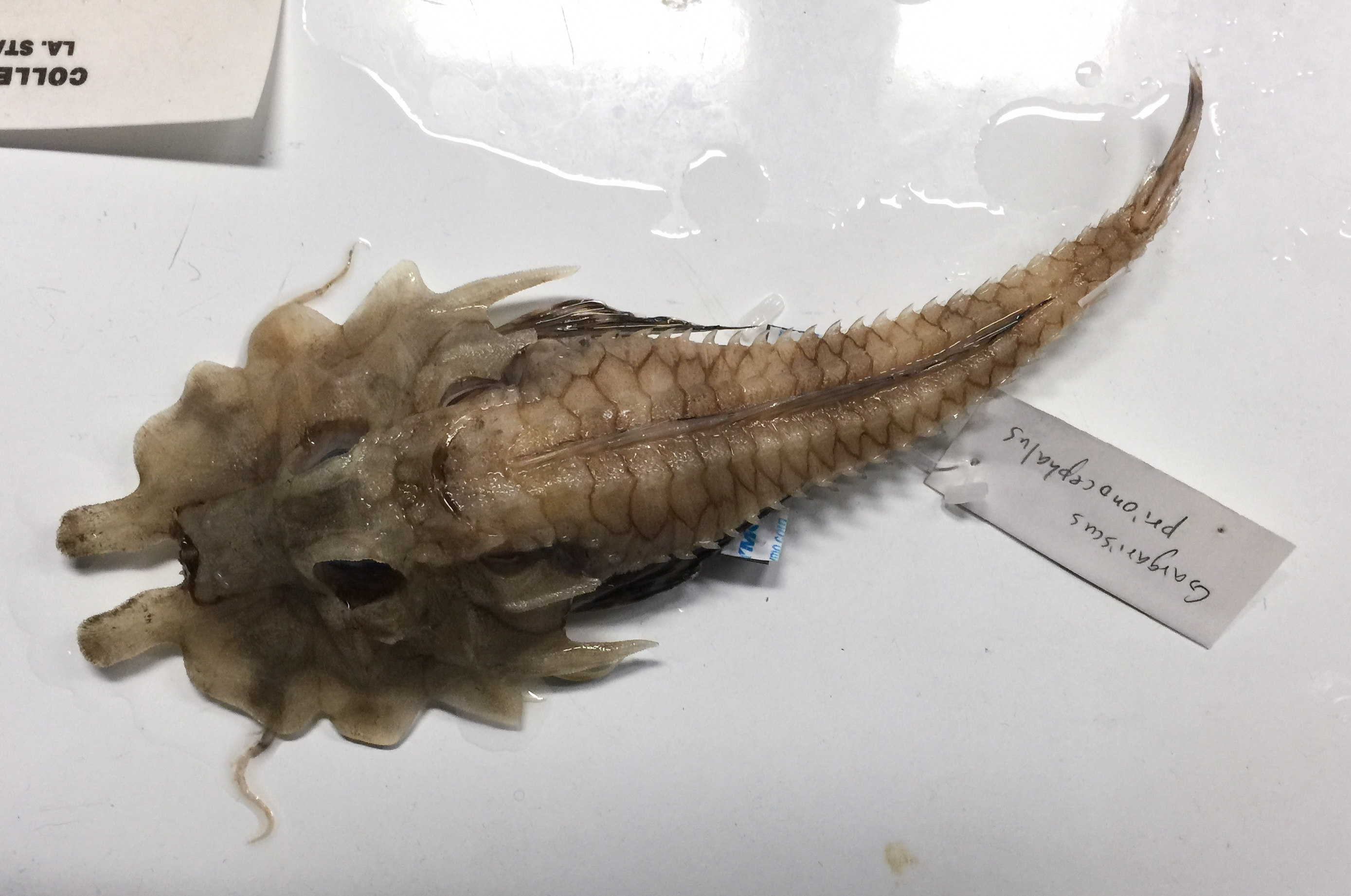 Gargariscus prionocephalus (Louisiana State University, Museum of Natural Science)